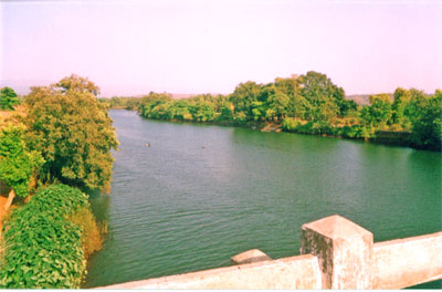 River Vashisti, Chiplun, Maharashtra, India